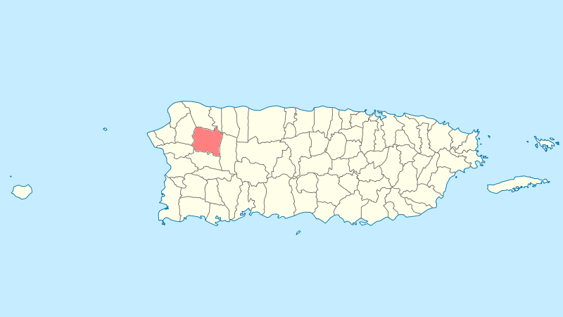 Municipal locator of Puerto Rico